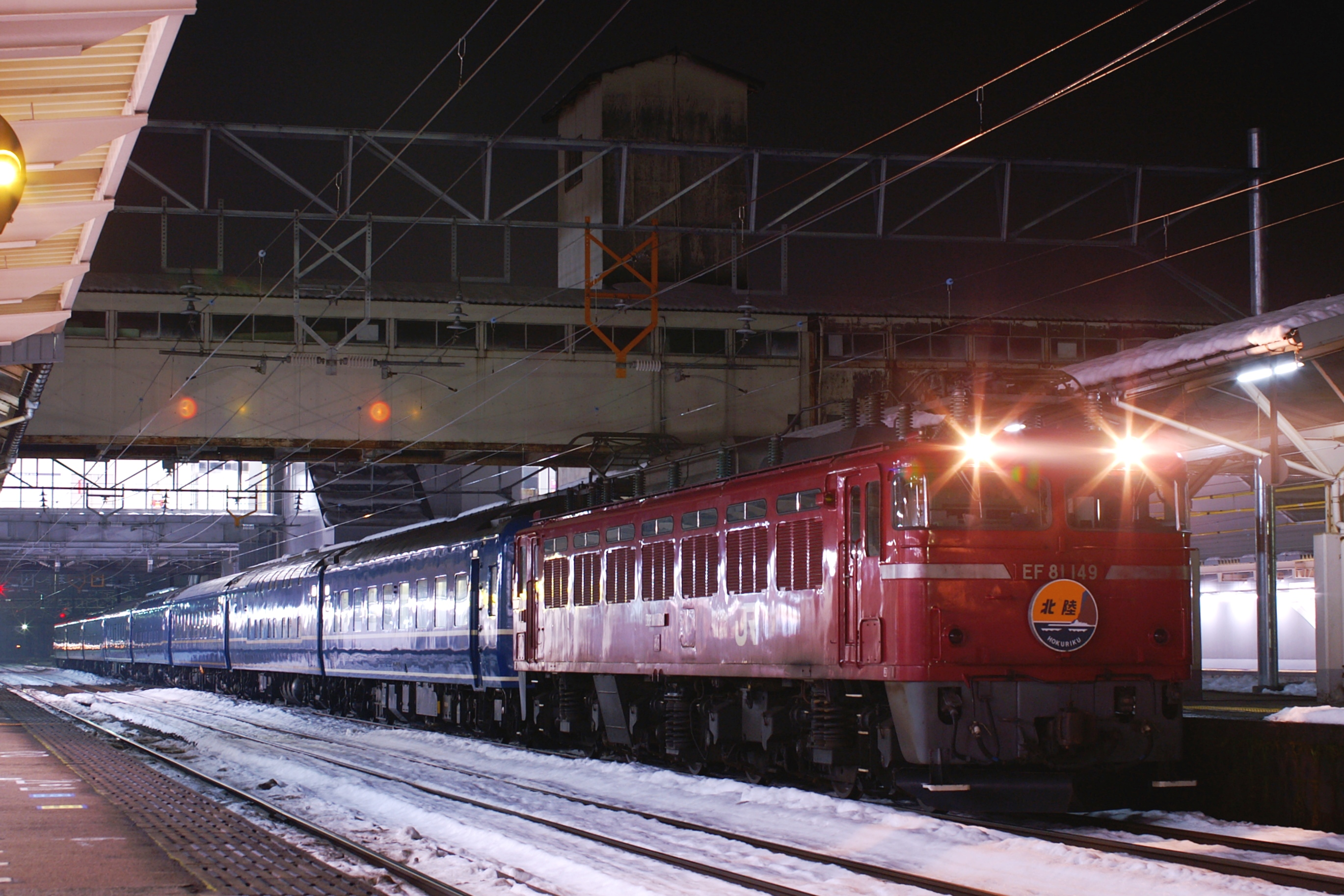 JR East Class EF81 electric locomotive EF81 149 on a down Hokuriku sleeping car service at Takaoka Station